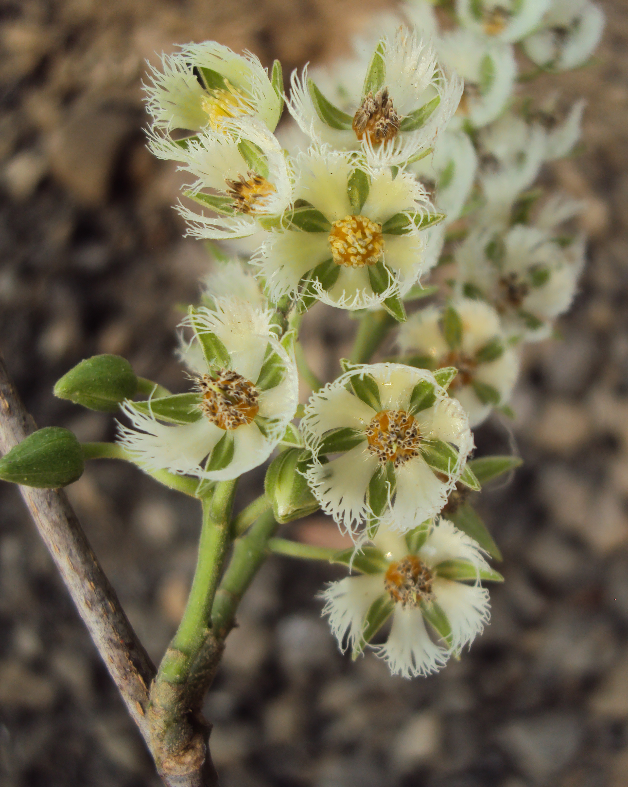 Elaeocarpus serratus